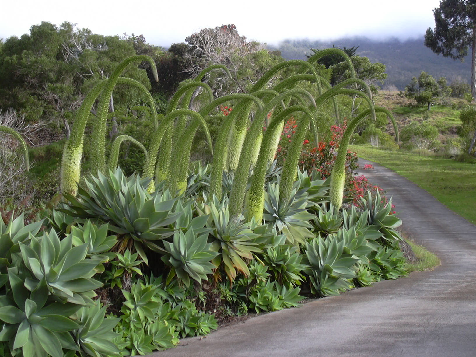 Agave attenuata (flowering). Location: Maui, Kula